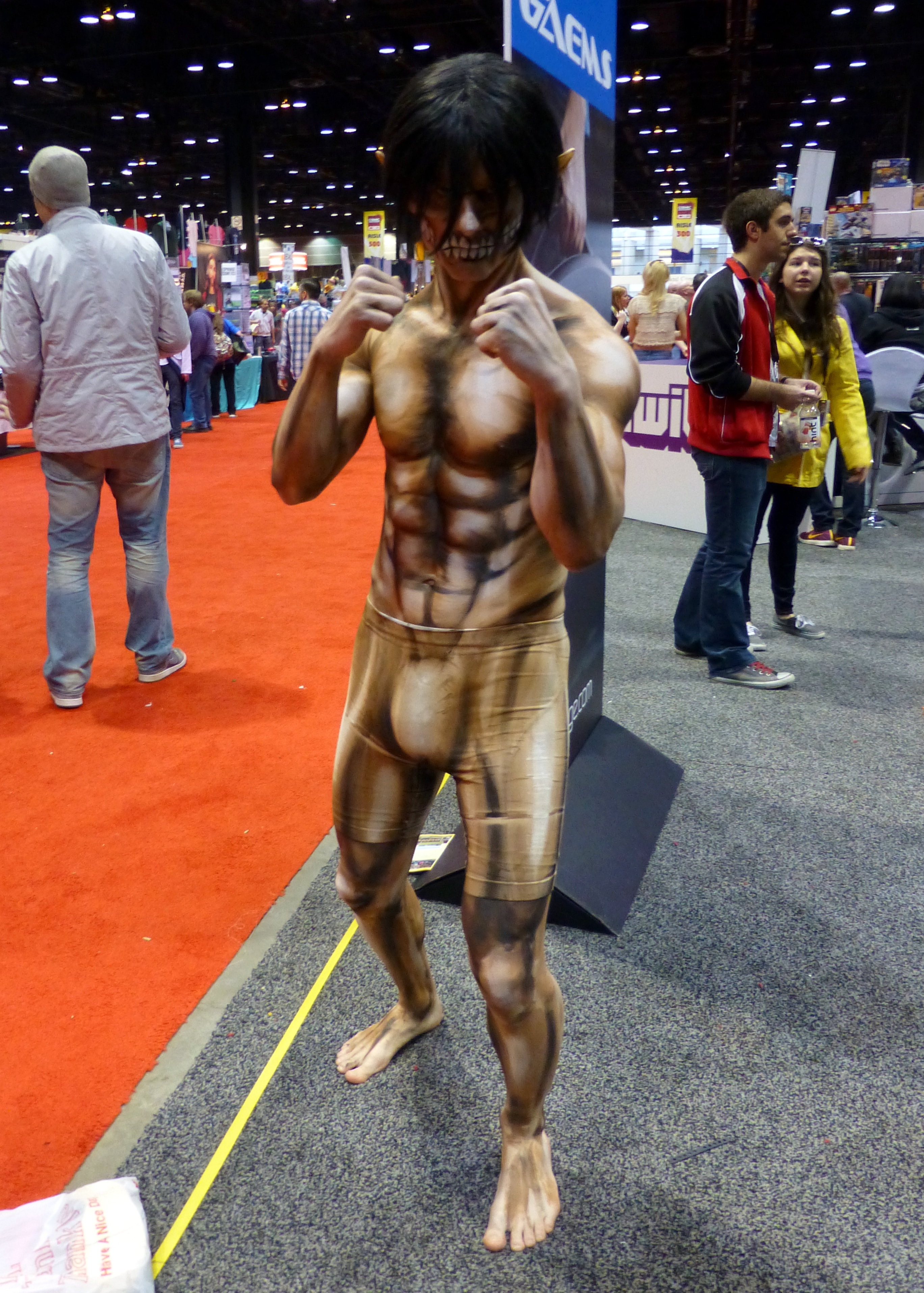 Cosplay of Attack on Titan at Chicago Comic & Entertainment Expo (C2E2) 2014.